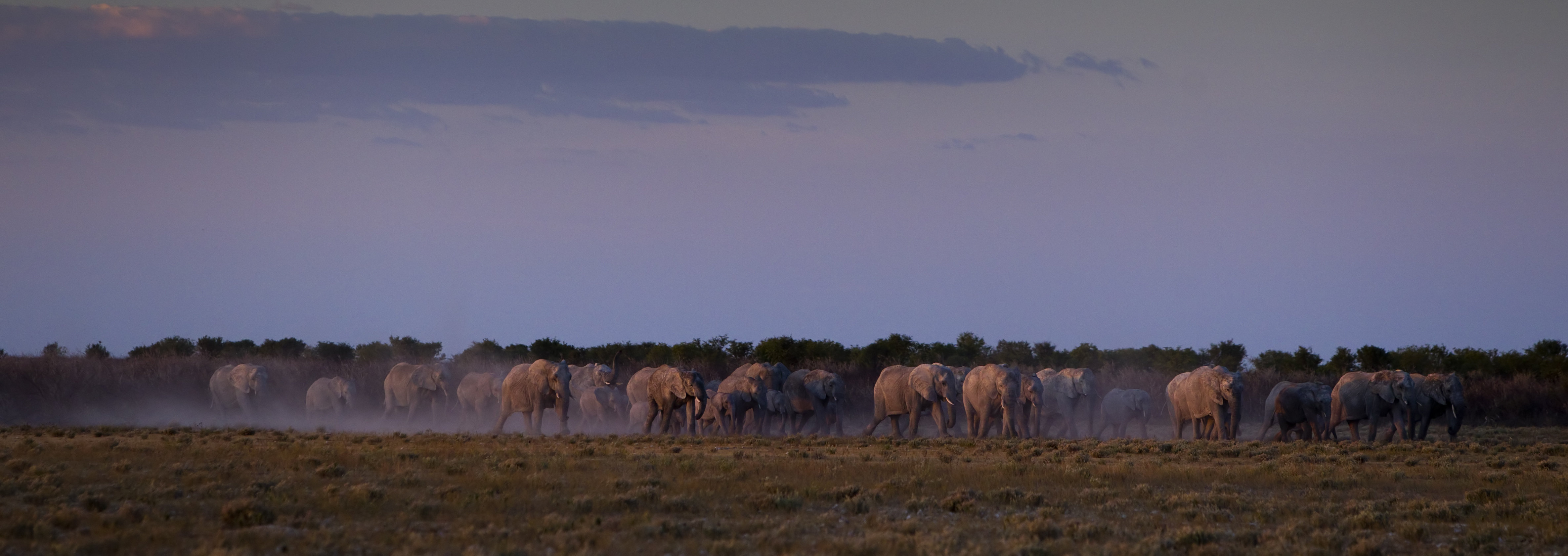 Elephants rushing to the Gemsbokvlakte waterhole in the Etosha National Park.